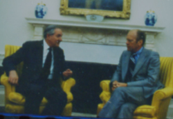 The photo contact sheet, identified as A0971 by the White House Photographic Office (WHPO), is housed at the Gerald R. Ford Presidential Library, a branch of the National Archives and Records Administration (NARA). This file is a 200 dpi photo contact sheet having images from roll of film A0971 of the August 9, 1974 - January 20, 1977 Gerald R. Ford White House Photographic Office Series A0001-A9999 and B0001-B2886 photographs. The date on the photo contact sheet is the date the roll of film was processed, not necessarily the date the photographs were taken. See table below for additional details.